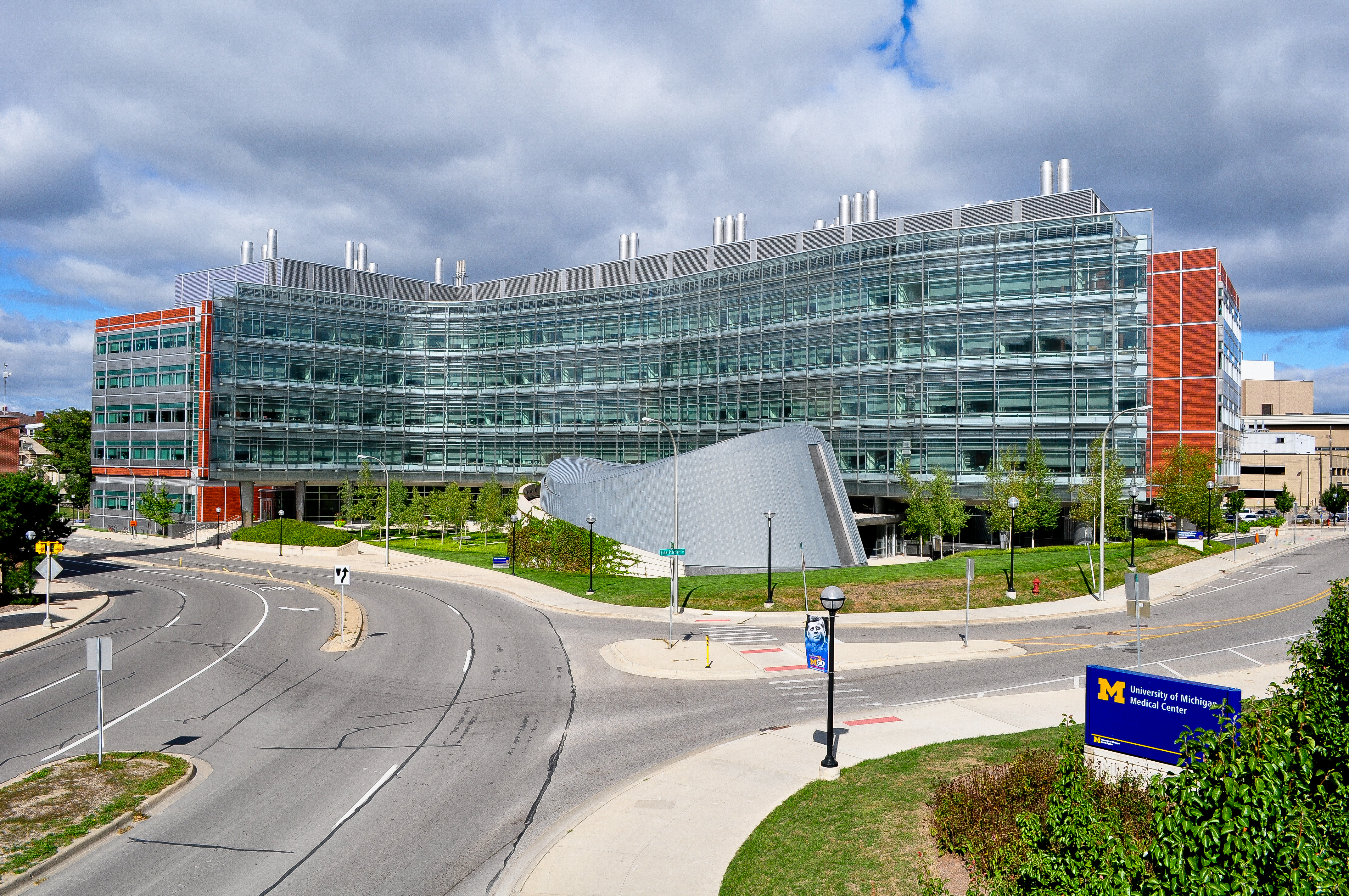 Biomedical Science Center, University of Michigan, Winter 2010